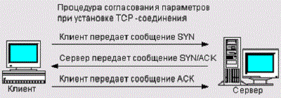 DDoS attacs